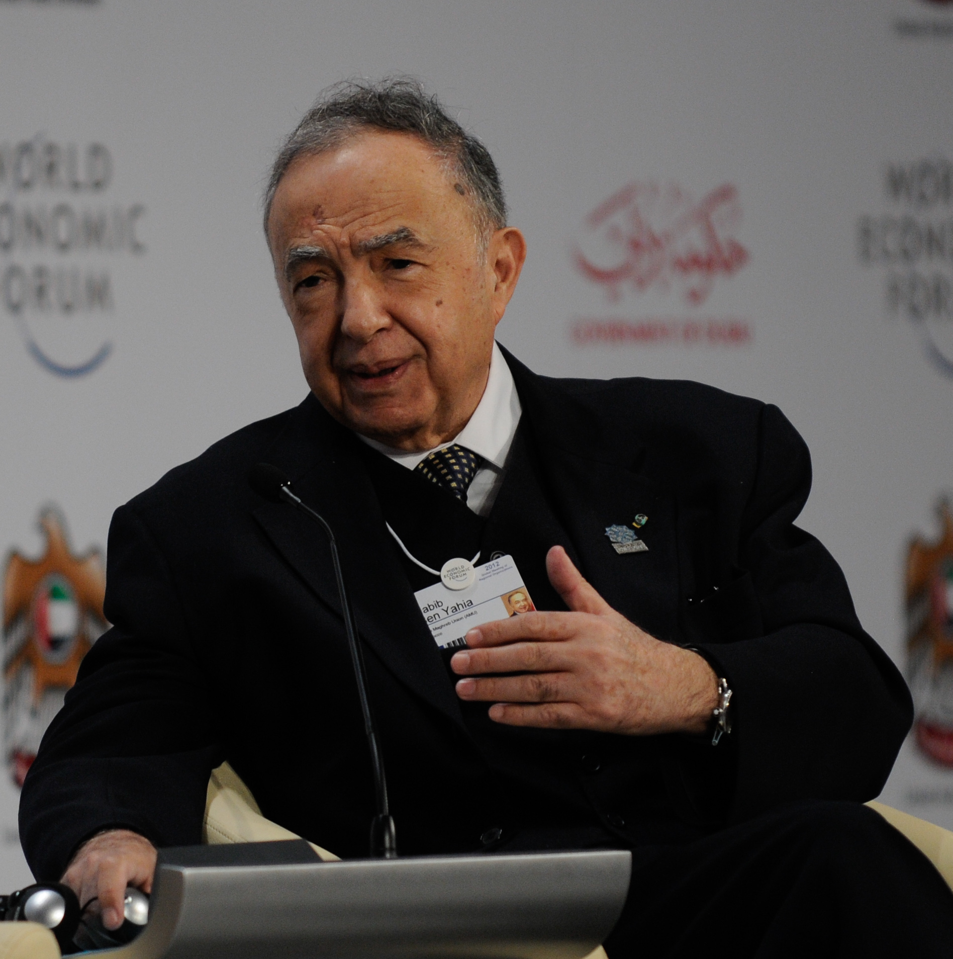 DUBAI, UNITED ARAB EMIRATES, 13 November 2012 - Habib Ben Yahia, Secretary-General, Arab Maghreb Union (AMU), Rabat, speaks during a televised panel discussion at the World Economic Forum's Summit on the Global Agenda 2012 held in Dubai from 12-14 November 2012.